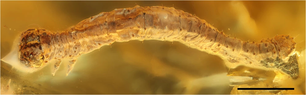 Dorsal view of the Eogeometer valdens holotype caterpillar. Middle Eocene; Baltic amber, Samland Peninsula, Kalingrad, Russia Bavarian State Collection of Zoology, Munich, Germany; accession number SNSB-ZSM-LEP amb002